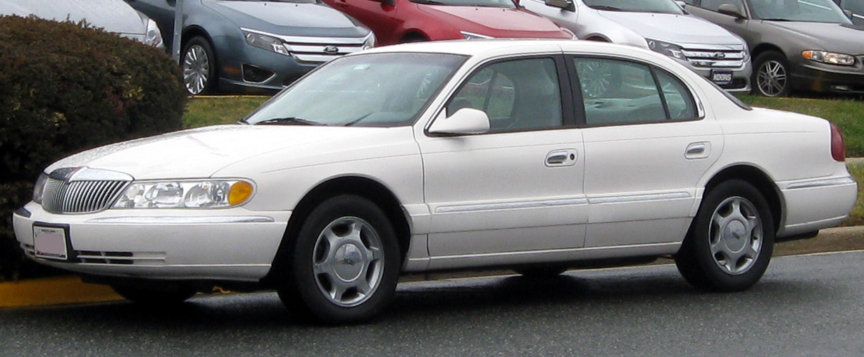 1998-2002 Lincoln Continental photographed in Silver Spring, Maryland, USA.